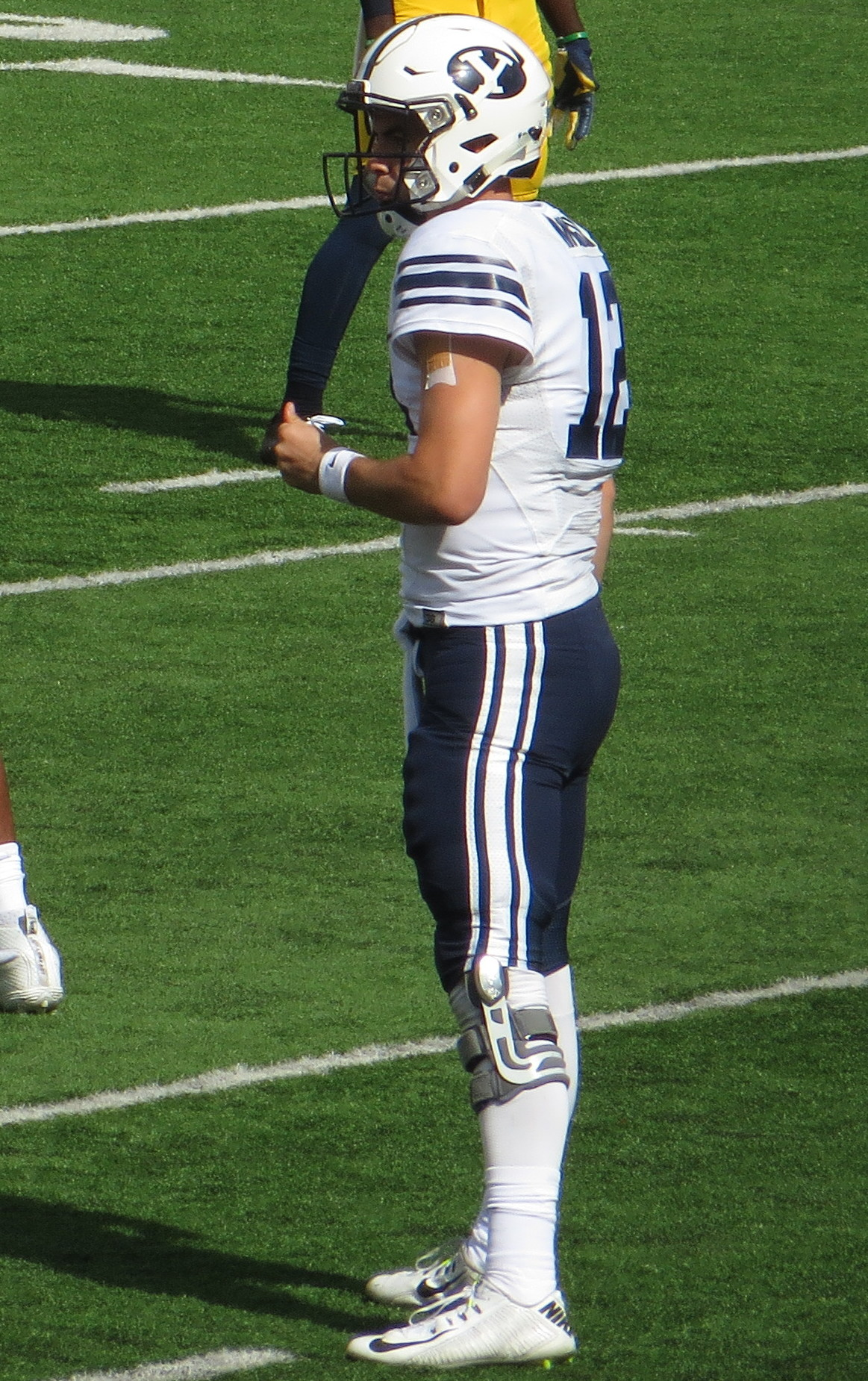 Not much happened in the second half. No points scored by either team, but Michigan scored 31 points in the first half and allowed only 105 yards by BYU in the entire game, so the damage had already been done. A dominant shutout by Michigan.